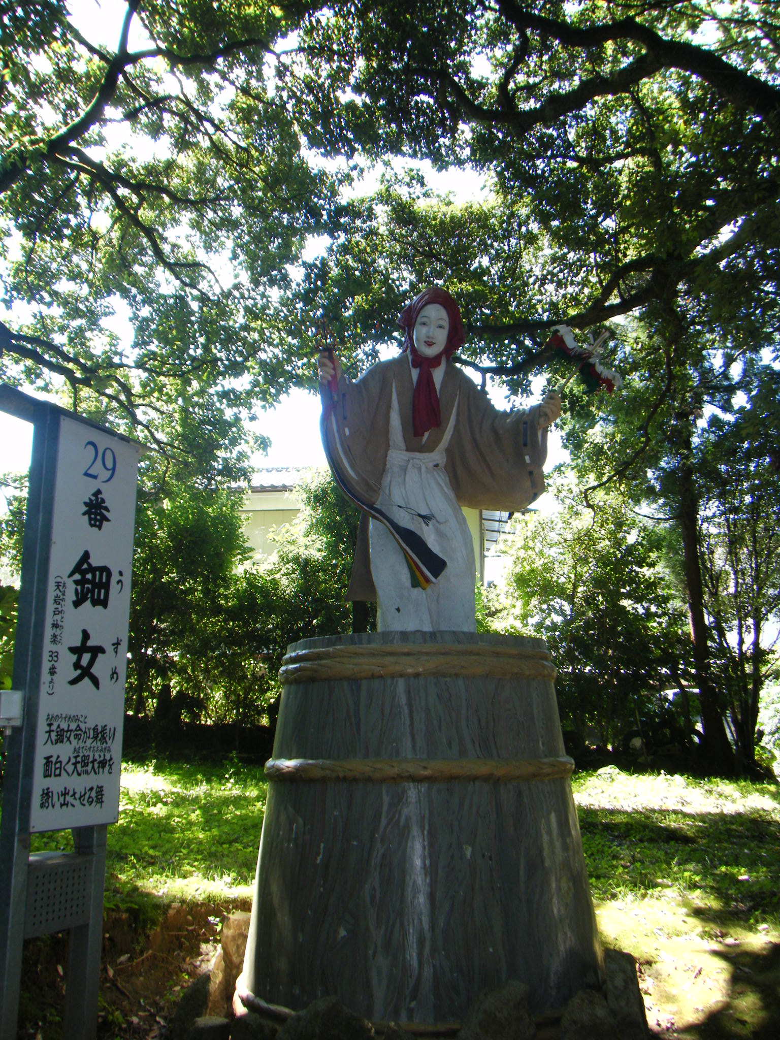 Uzume